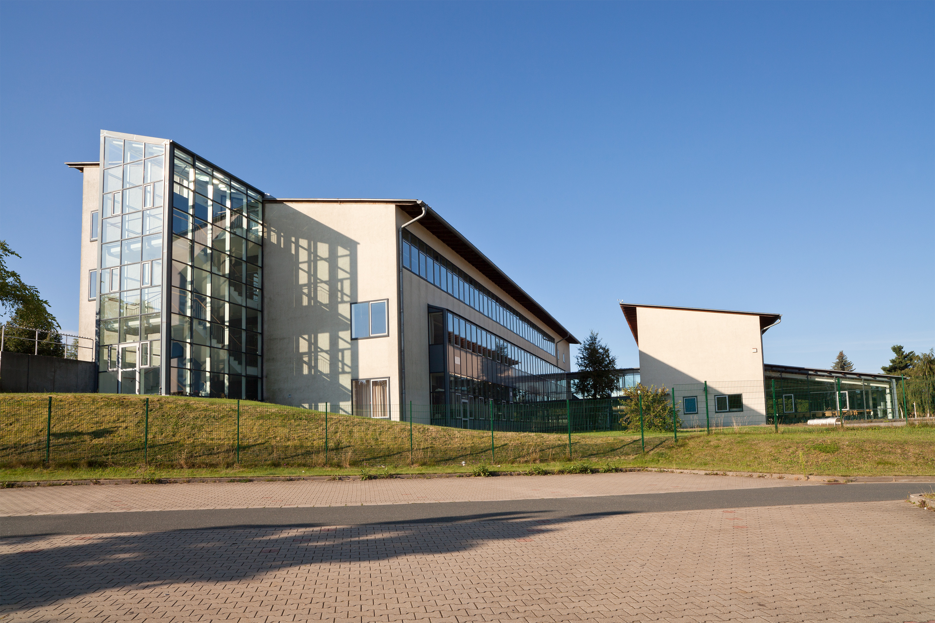 Brand-Erbisdorf, secondary school named after Bernhard von Cotta